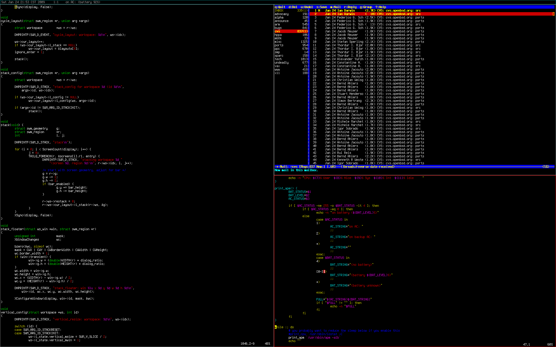 scrotwm in action